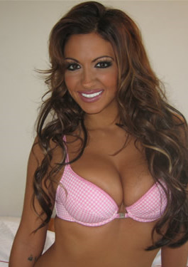 this is when i met her in 2005.. (yes i met her in her underwear... long story!) its from my camera